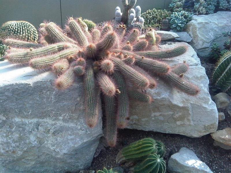 Echinopsis caulescens in Kew Gardens, England.